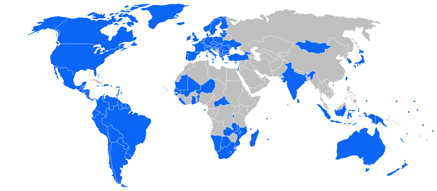 This Map of Electoral Democracies (shown in blue) reflects the findings of Freedom House's 2008 survey Freedom in the World (